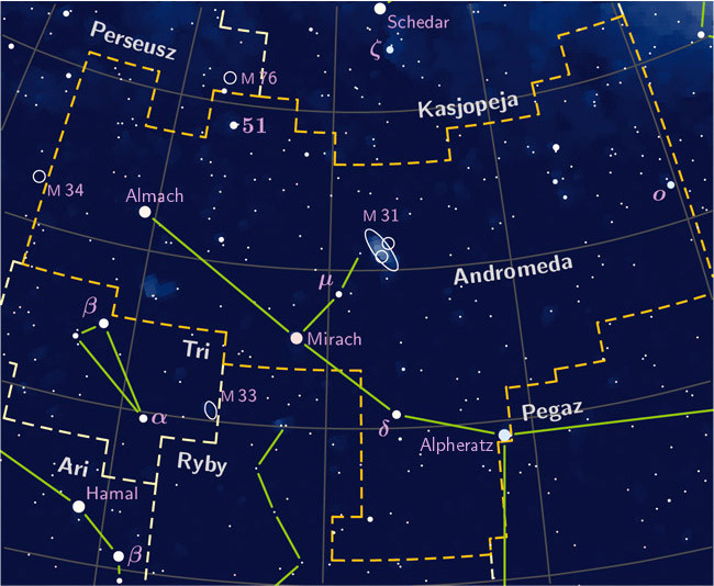 Andromeda constellation. Legenda[edit] Gwiazdy zostały oznaczone jasnymi kółkami, których promień powiązany jest z ich obserwowaną jasnością, a kolor pokazuje barwę światła danej gwiazdy. Jasnoszarym tekstem oznaczono polskojęzyczne nazwy gwiazdozbiorów bądź, w przypadku braku miejsca, skróty ich nazw łacińskich. Purpurowo opisane zostały nazwy lub oznaczenia gwiazd oraz innych obiektów. Białe okręgi (lub elipsy) pokazują rozmiary niektórych obiektów (np. galaktyk lub gromad otwartych) Granice gwiazdozbiorów zaznaczone są przerywaną, jasnożółtą linią, a granice aktualnie prezentowanego gwiazdozbioru - linią jasnopomarańczową. Linie łączące poszczególne gwiazdy w obrębie gwiazdozbiorów są koloru zielonego. Drogę Mleczną ukazano jako zmiany koloru tła od ciemnego granatu do jasnego błękitu. Czerwoną linią przerywaną oznaczona jest ekliptyka. Białym tekstem opisane zostały większe powierzchniowo obiekty takie, jak Obłoki Magellana, czy gromada galaktyk w Pannie. Linie ukazujące kształty gwiazdozbiorów zostały dobrane arbitralnie, jednak z akcentem na spójność z dostępnymi źródłami polskojęzycznymi, oraz, w niektórych przypadkach, tak, by bardziej odpowiadały nazwie gwiazdozbioru. Wyznaczone zostały one na podstawie następujących źródeł: książki "Niebo na dłoni" Eduarda Pitticha i Dusana Kalmancoka, książki "Nasze gwiazdozbiory" Josipa Kleczka, obrotowej mapy nieba opracowanej przez PTMA Kraków oraz programów SkyGlobe i Celestia.